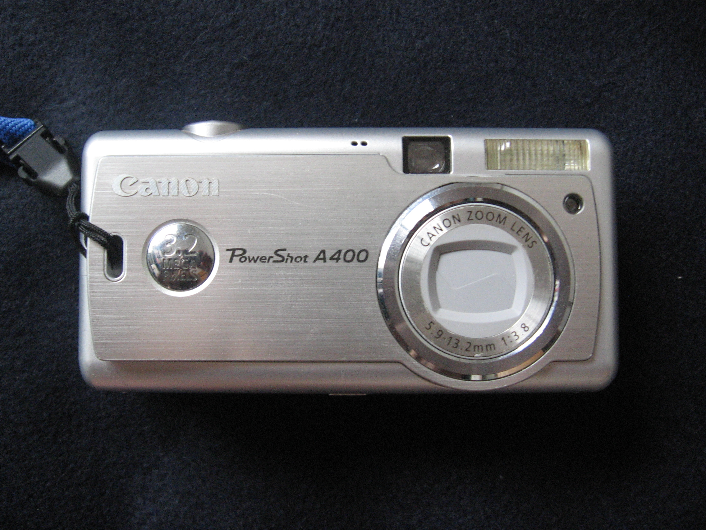 Canon PowerShot A400 digital camera